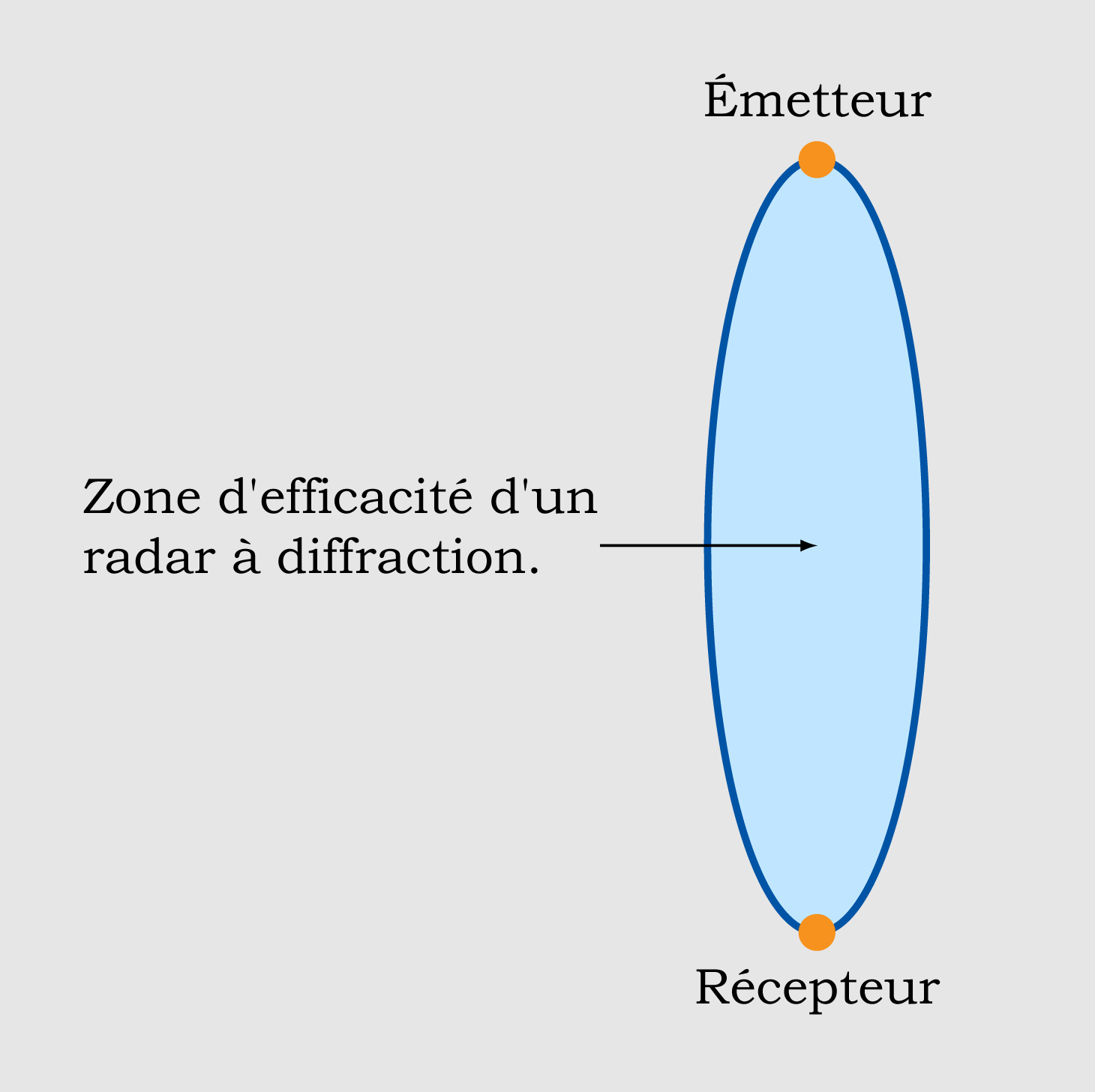 Bistatic radar: forward scatter radar. Region of efficiency.